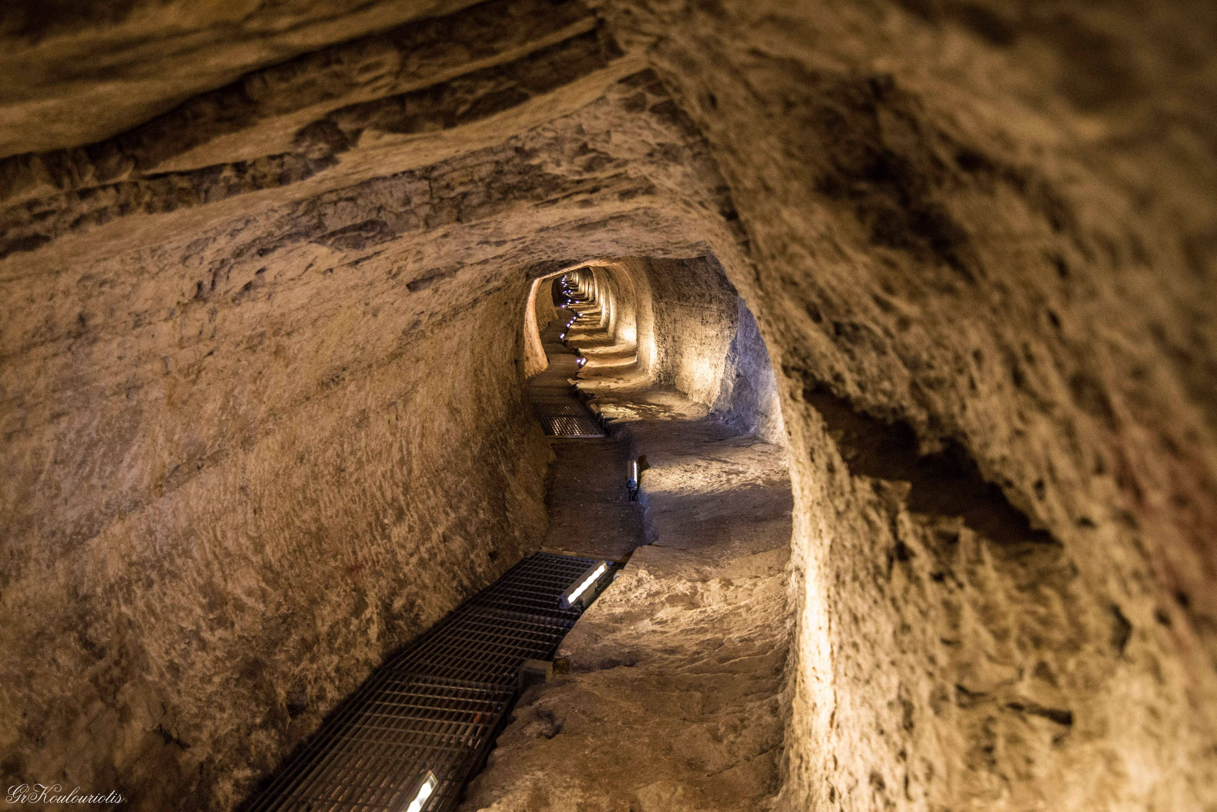 Tunnel of Eupalinos The Tunnel of Eupalinos or Eupalinian aqueduct (Modern Greek: Efpalinio orygma, Ευπαλίνειο όρυγμα) is a tunnel of 1,036 m (3,399 ft) length in Samos, Greece, built in the 6th century BC to serve as an aqueduct.[1] The tunnel is the second known tunnel in history which was excavated from both ends (Ancient Greek: αμφίστομον, amphistomon, "having two openings"), and the first with a geometry-based approach in doing so.[2] Today it is a popular tourist attraction.